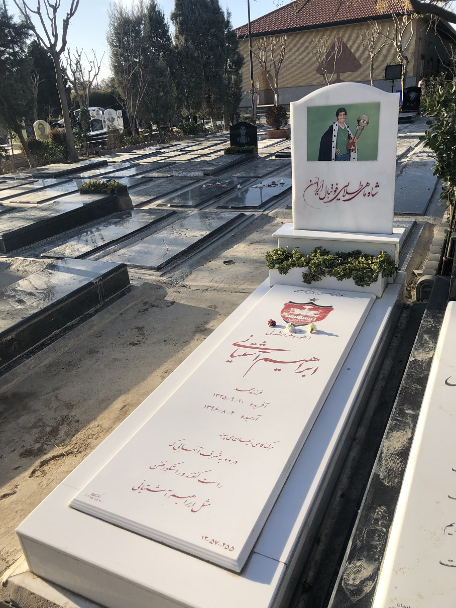 Beheshte Zahra Cemetery